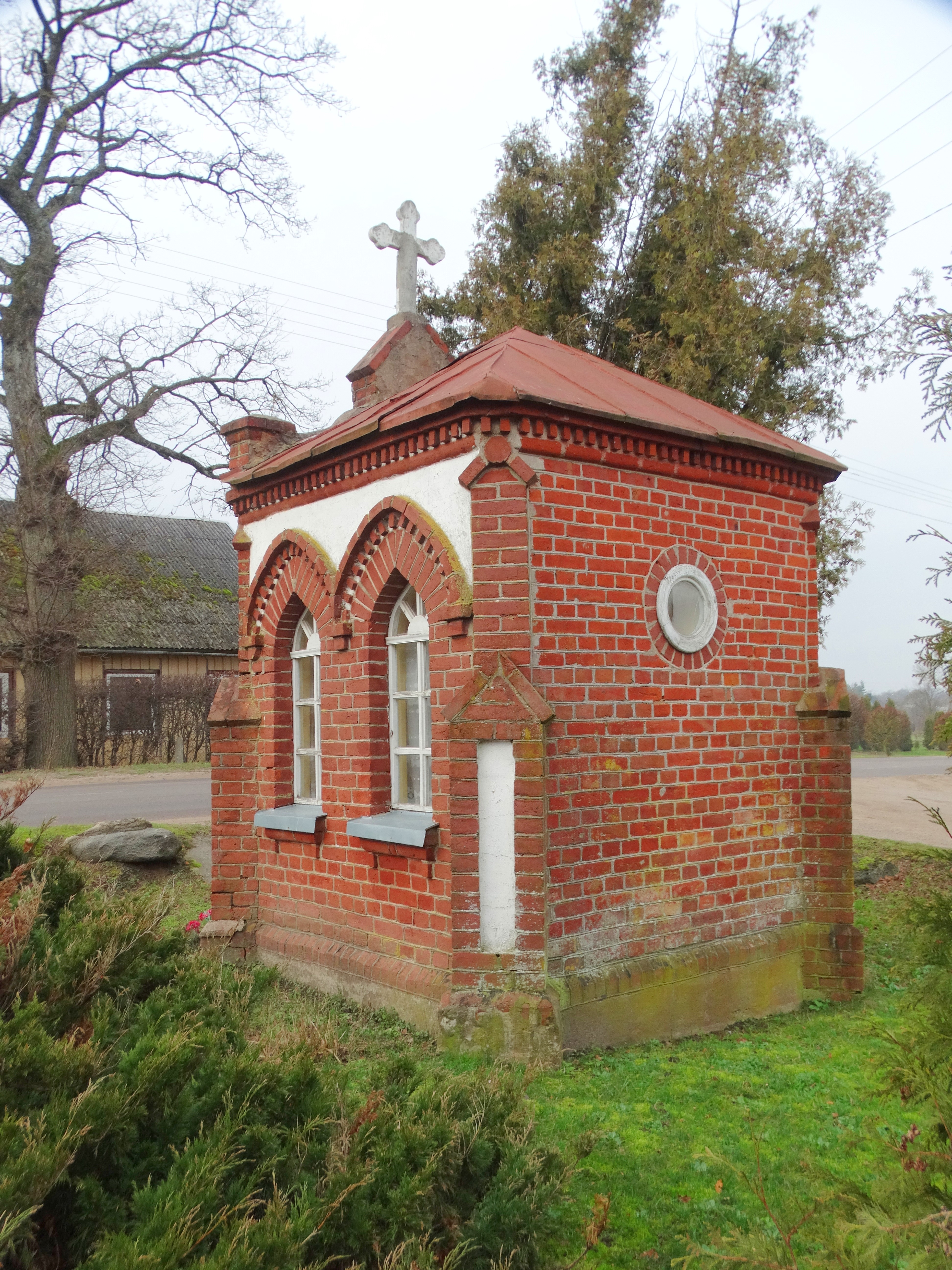 Chapel on Kretinga Street, Darbėnai, Lithuania